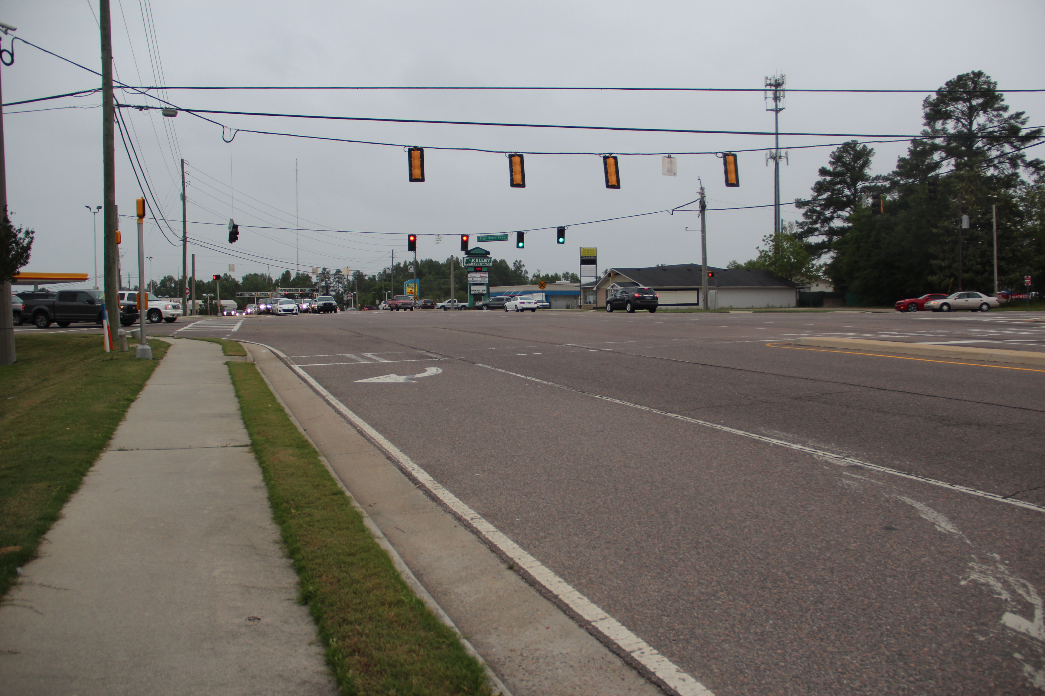 Martinez, Georgia